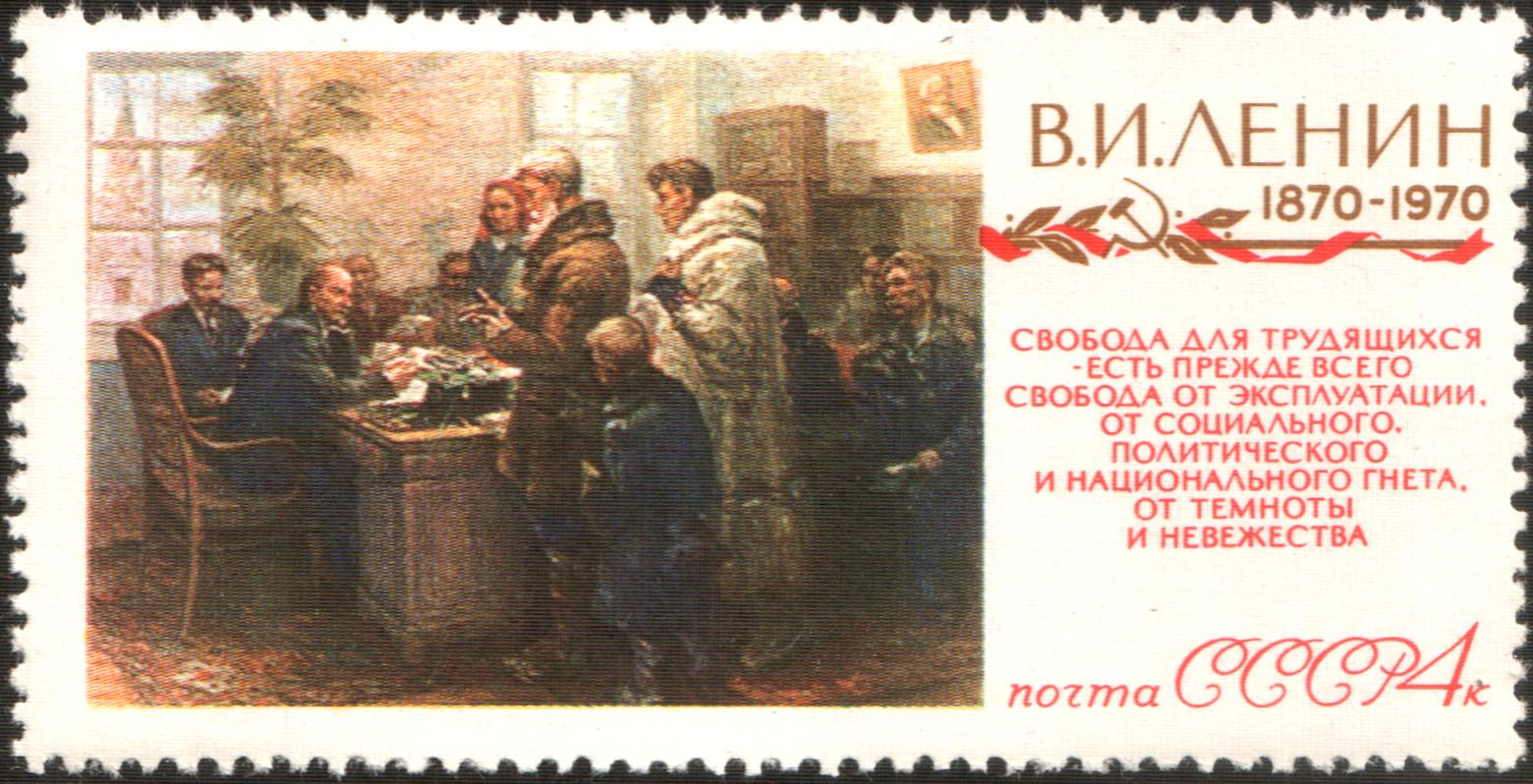 USSR stamp: Farmers’ Delegation Meeting Lenin (After Feodor Modorov). Series: Centenary of Birth of Vladimir Lenin (1870-1924). Lenin on Paintings